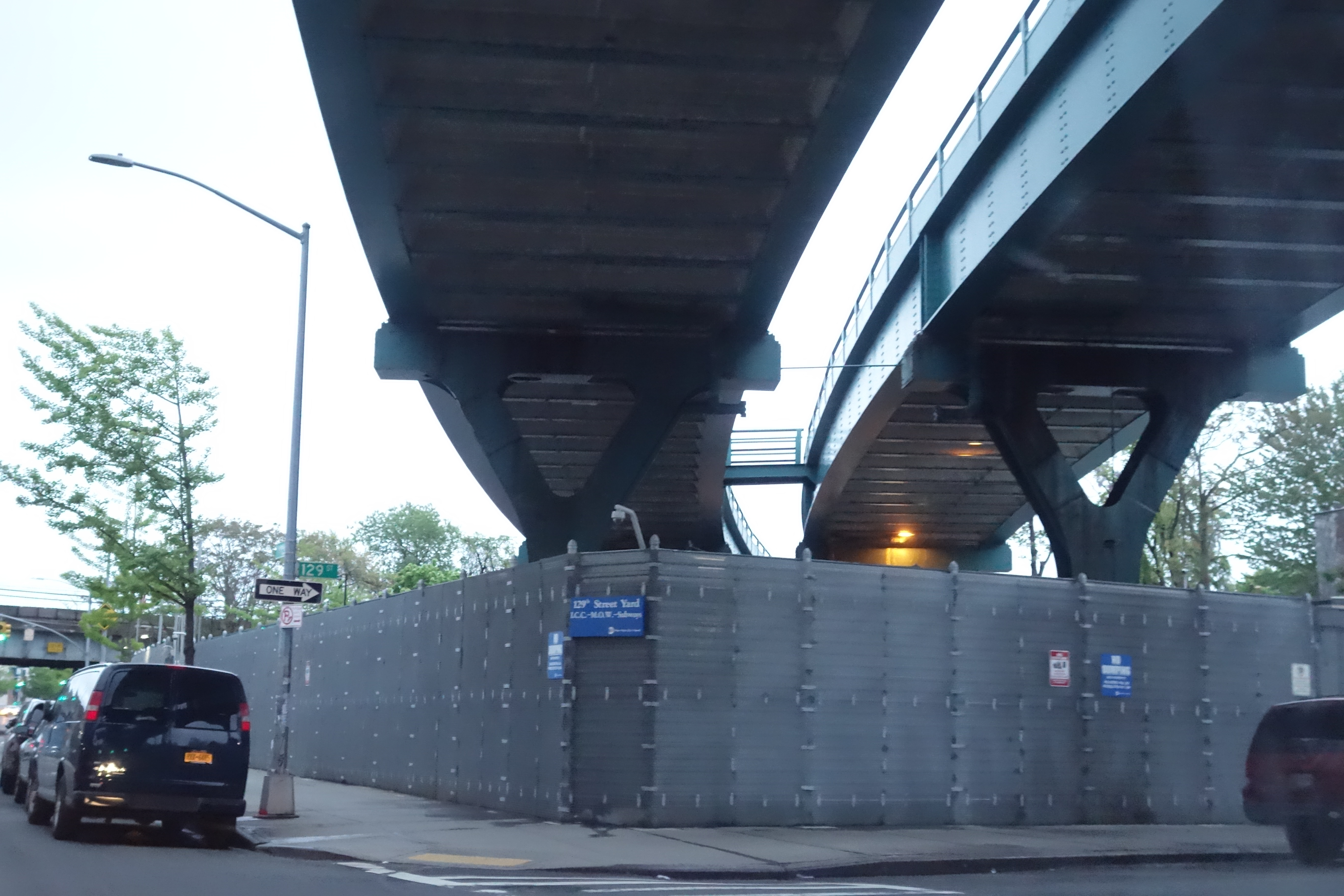 Looking at the BMT Jamaica Line turning south parallel to the LIRR Main Line to enter the Archer Avenue Subway, at Jamaica Avenue and 129th Street in Richmond Hill, Queens. The property is referred to as the "129th Street Yard". Also note the unique Y-shaped supports underneath the trestle, not found on any other elevated subway line in the city.